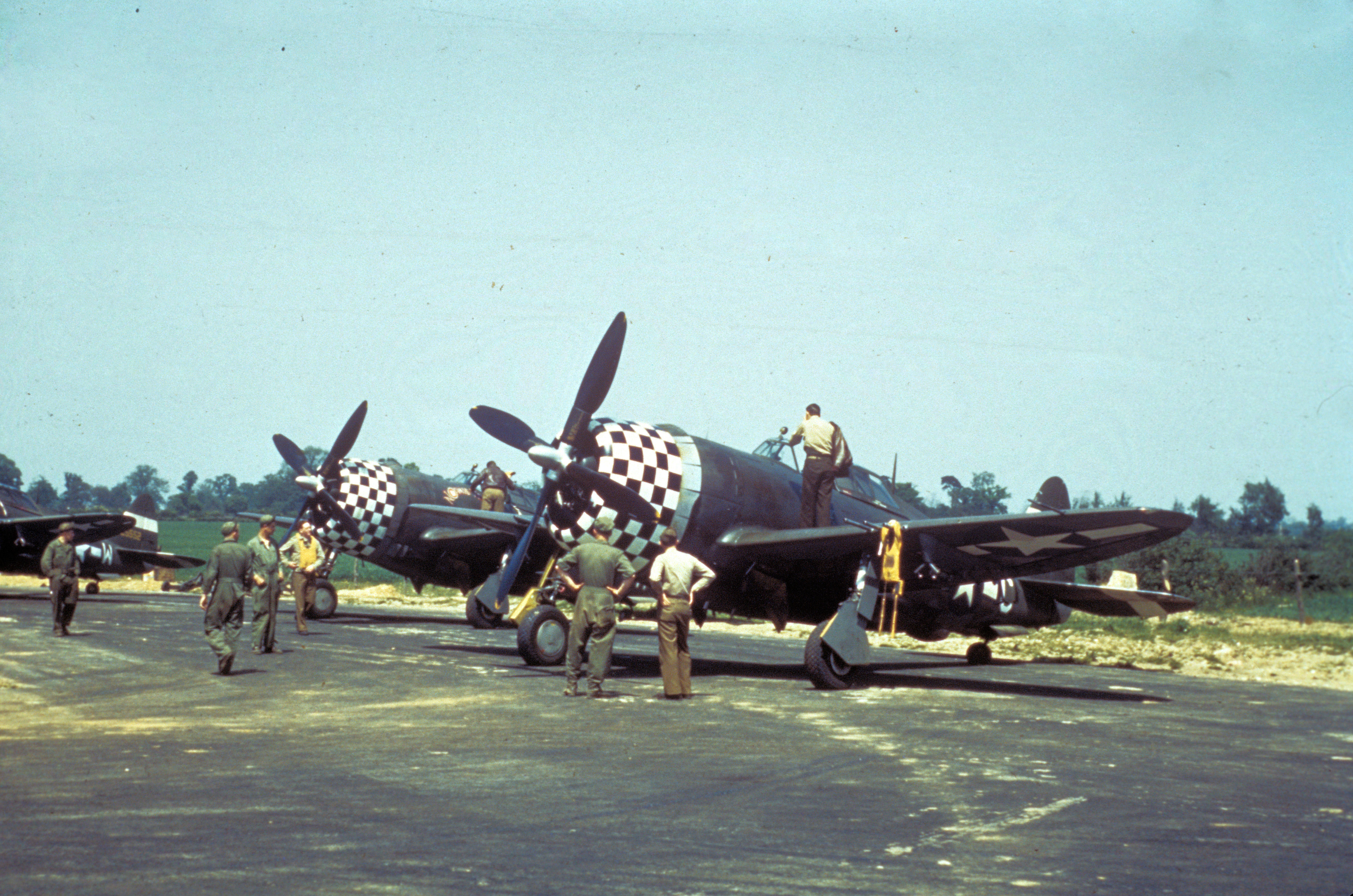 P-47 Thunderbolt aircraft of the 78th Fighter Group at Duxford. Handwritten on slide casing:"3-12".